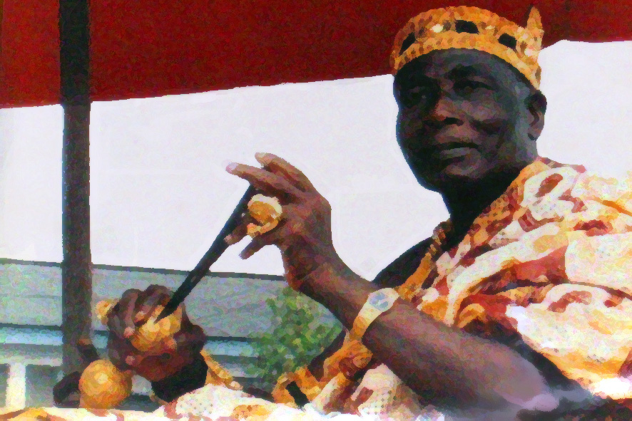 Nana Adu Ababio II. (b. 23-Dec-1931; d. 30-Apr-2007), Ankobeahene from Amanokrom since 26-Jul-1997, his actual name was Eric Kwaku Kwarte Quartey. He was one of the traditional chiefs of Amanokrom.